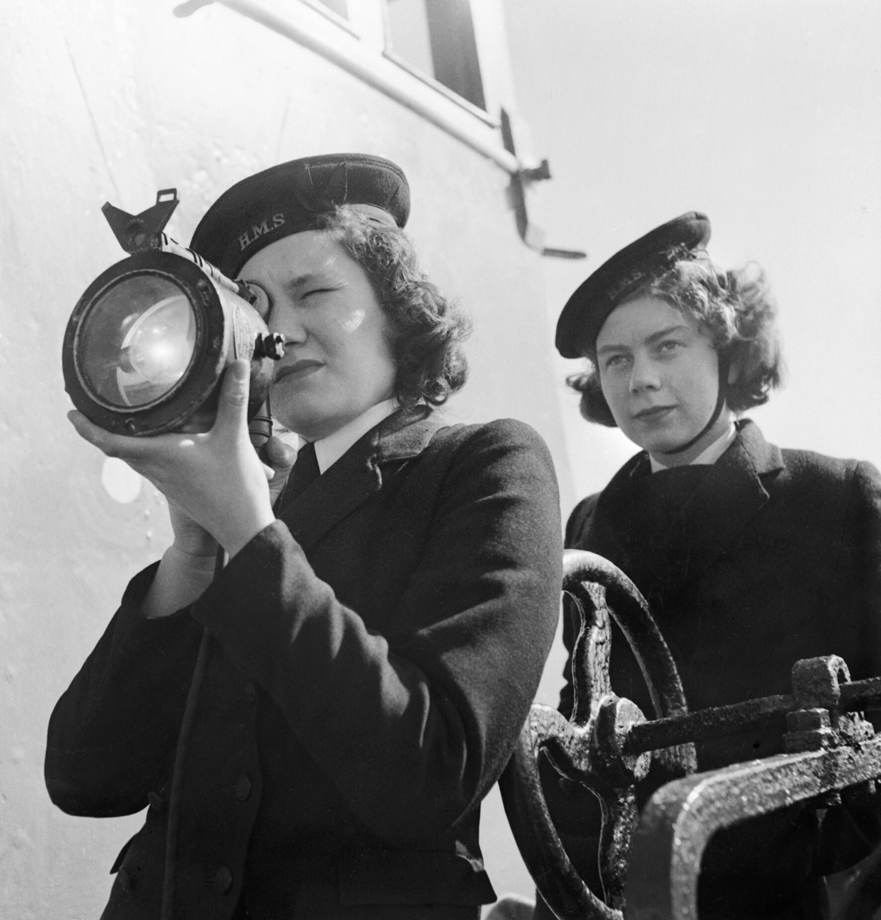 A Wren transmitting messages using an Aldis lamp in 1944. Wren Visual Signallers at work transmitting messages with an Aldis lamp, somewhere in Britain. These Signallers accompany the WRNS Boarding Officer on her trips to shipping in the harbour and use the lamps to send and receive messages to and from the ships.